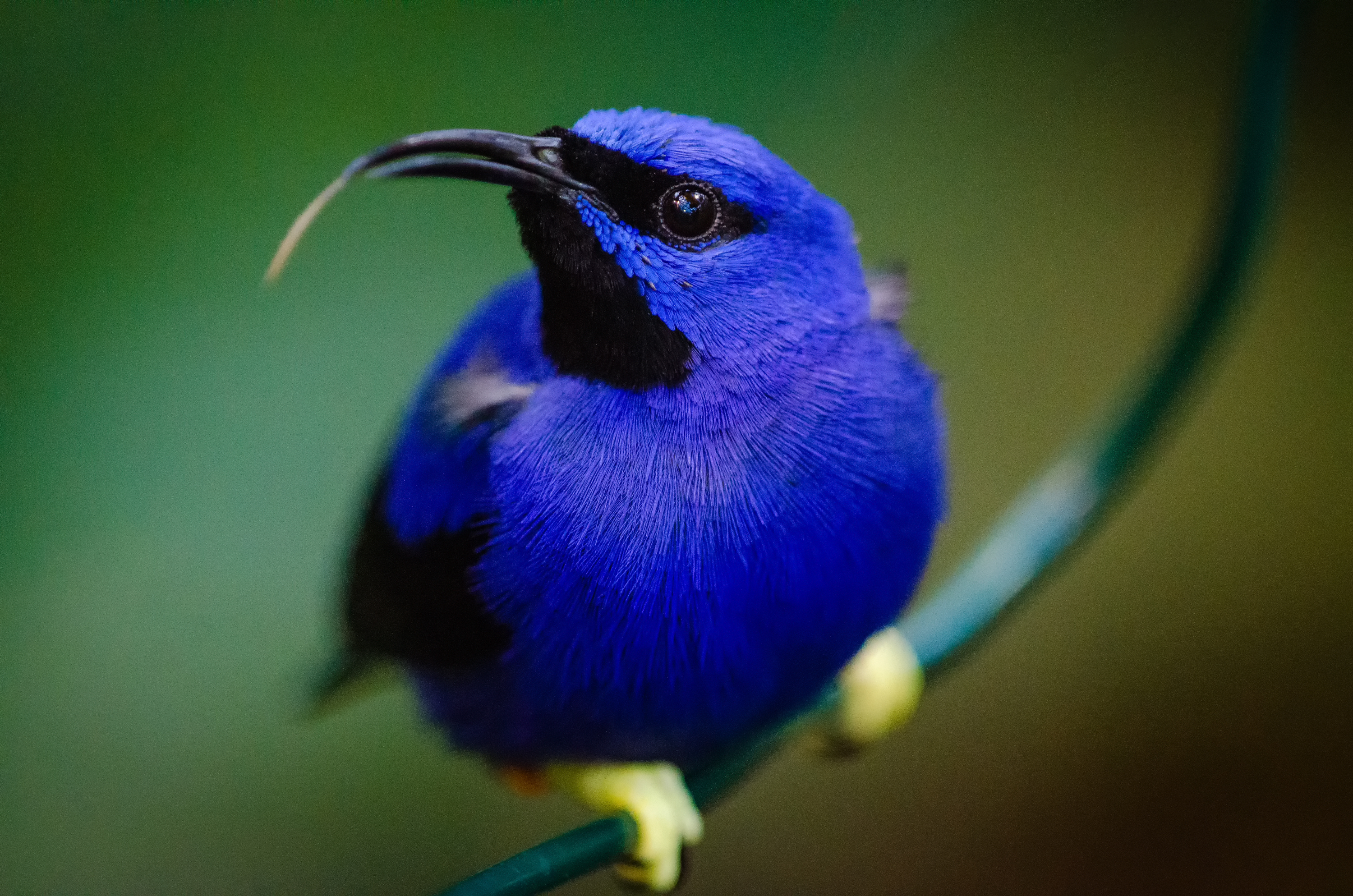 Shining honeycreeper